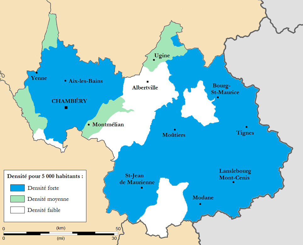 Map of medical density (numbers of general practitioners to 5,000 inhabitants) in the French department of Savoie en 2011. Map realised from Conseil national de l'Ordre des médecins map in their 2011 newscast report.